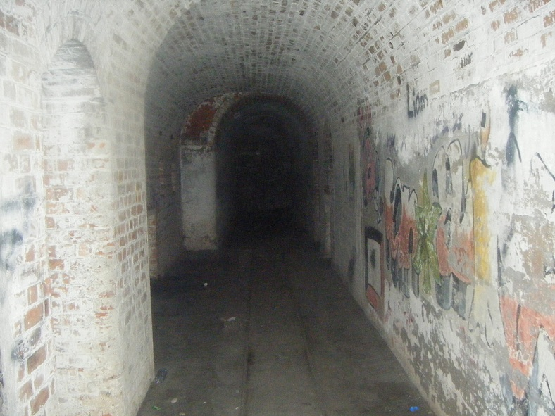 Verne High Angle Battery Portland Dorset Tunnel Inside August 2012